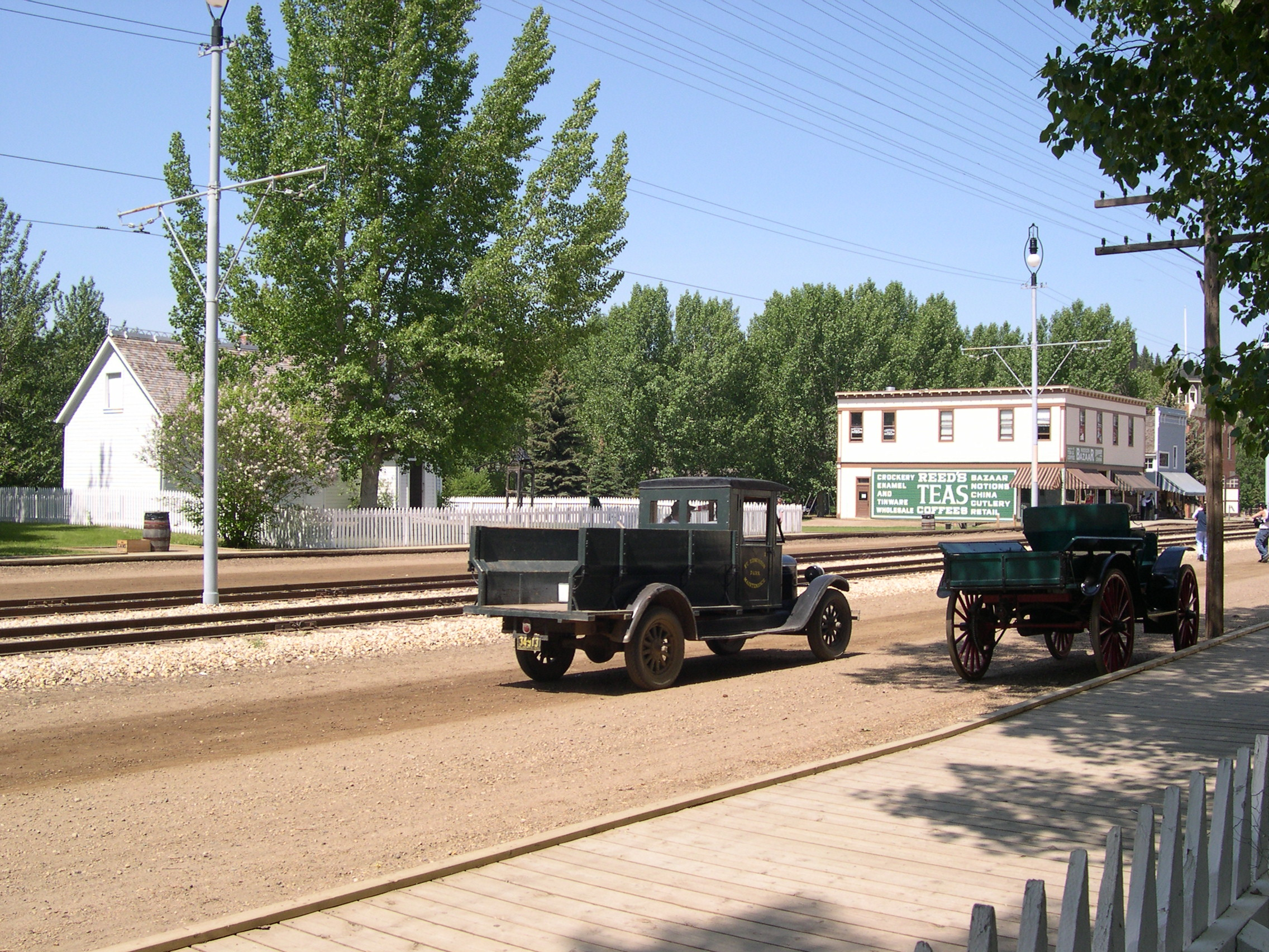 1920's re-creation